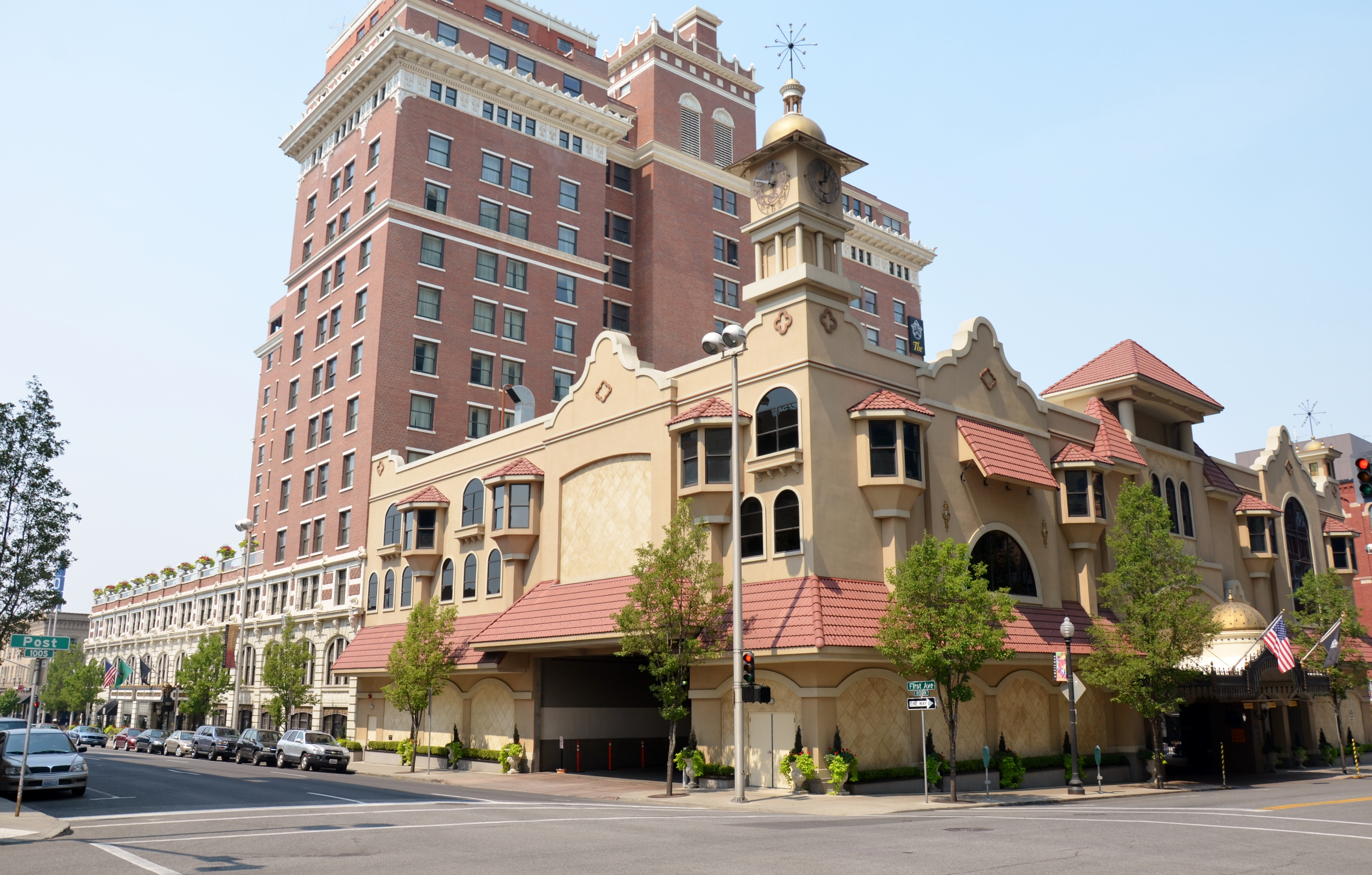 Spokane,Washington,USA.